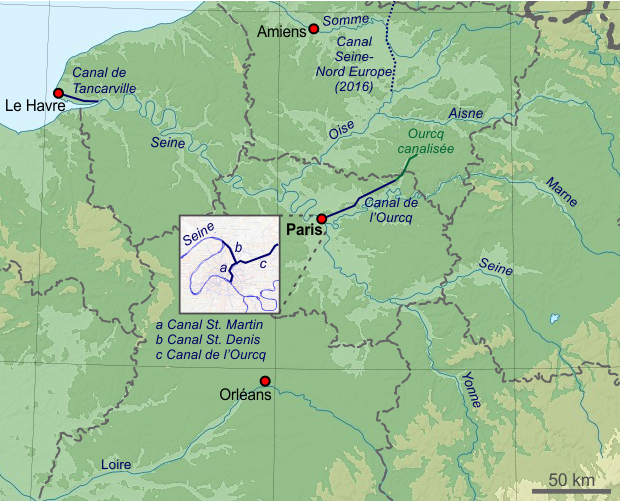 Map of canals in Paris and surroundings. Lateral canals alongside rivers not included (yet?). Coreldraw document available on request (through my talk page).